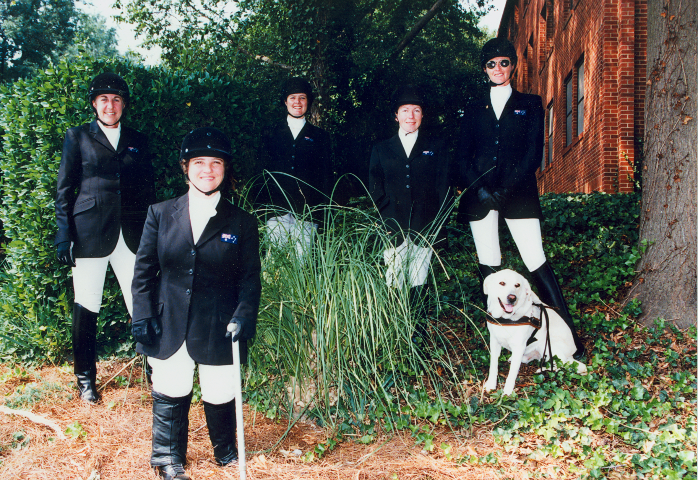 Australian athletes at the Atlanta 1996 Paralympic Games.